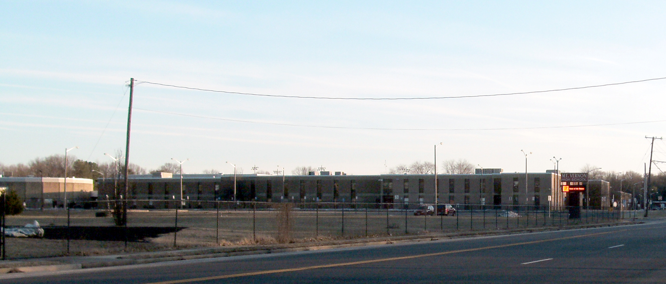 Cropped from an image I took for Wikipedia